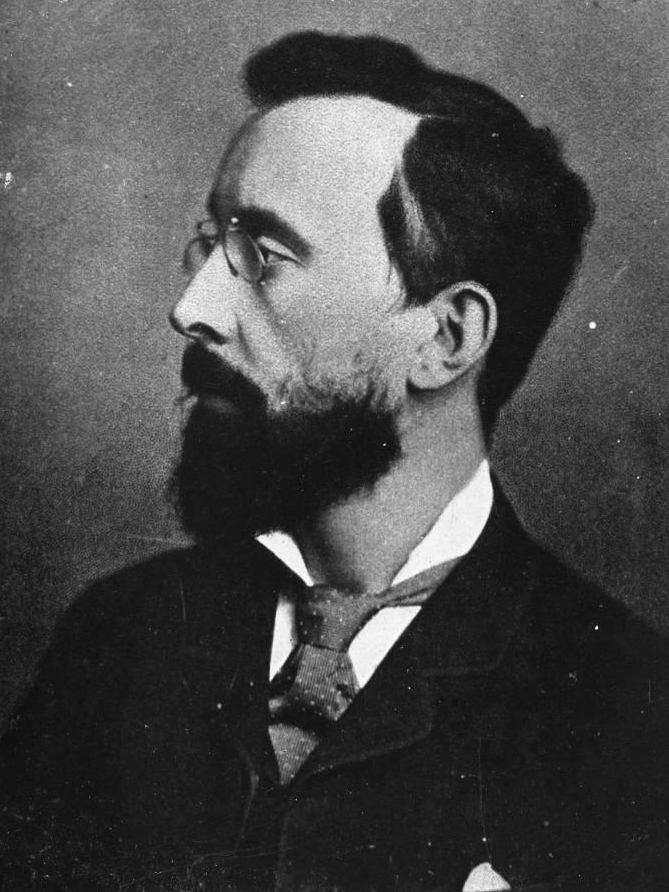 Irish politician Tim Healy, circa 1900